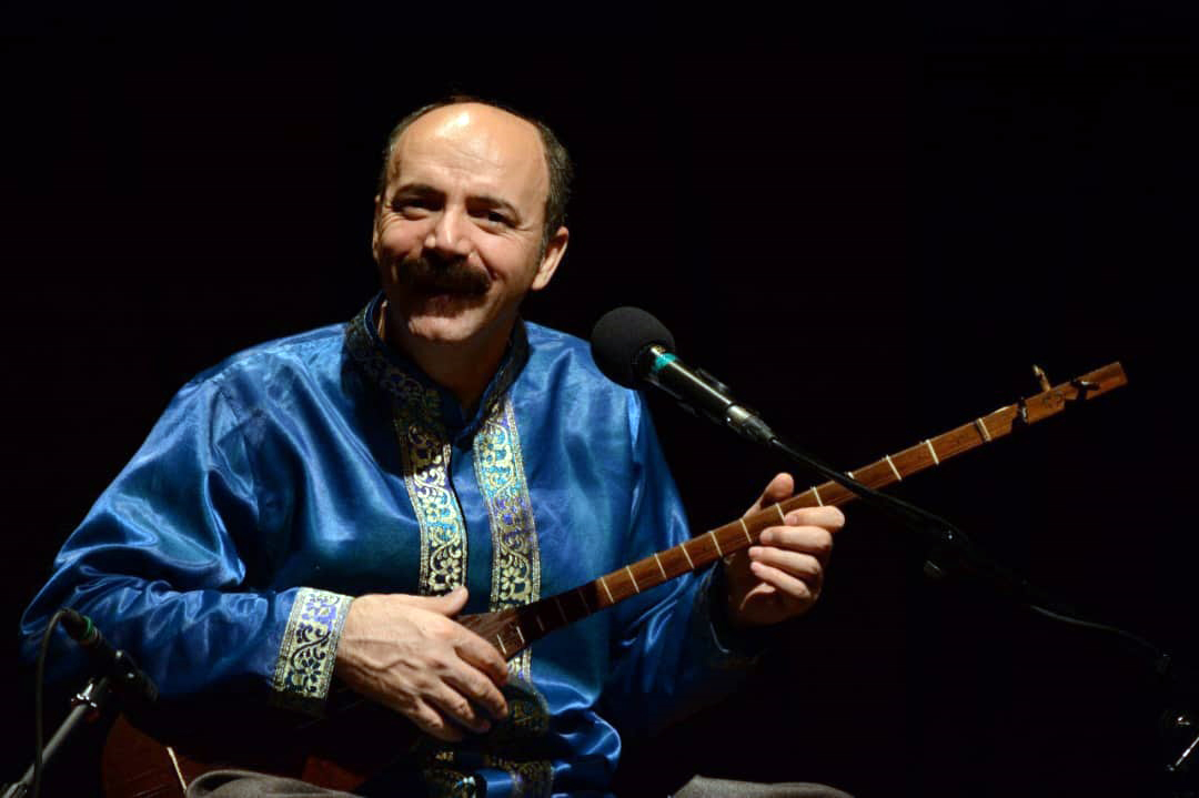 Heidar Kaki